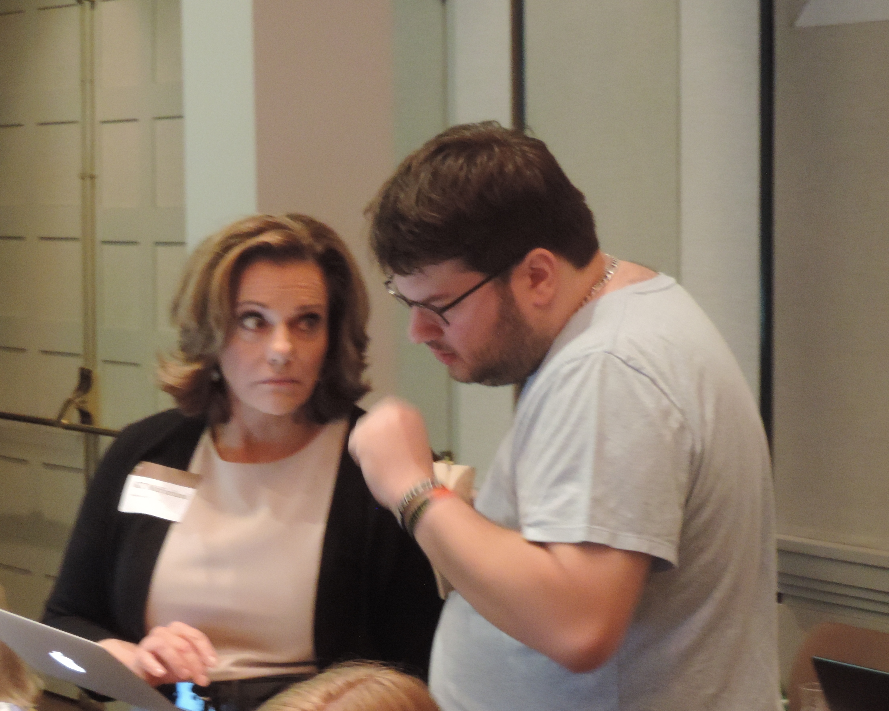 Looking west at KT McFarland consulting with Jeremy at CoFR